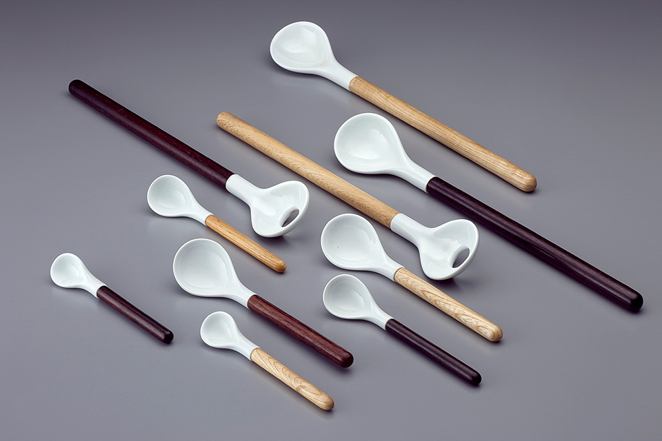 Serving Spoon, Spoon (1982), Masahiro Mori (ceramic designer) designed